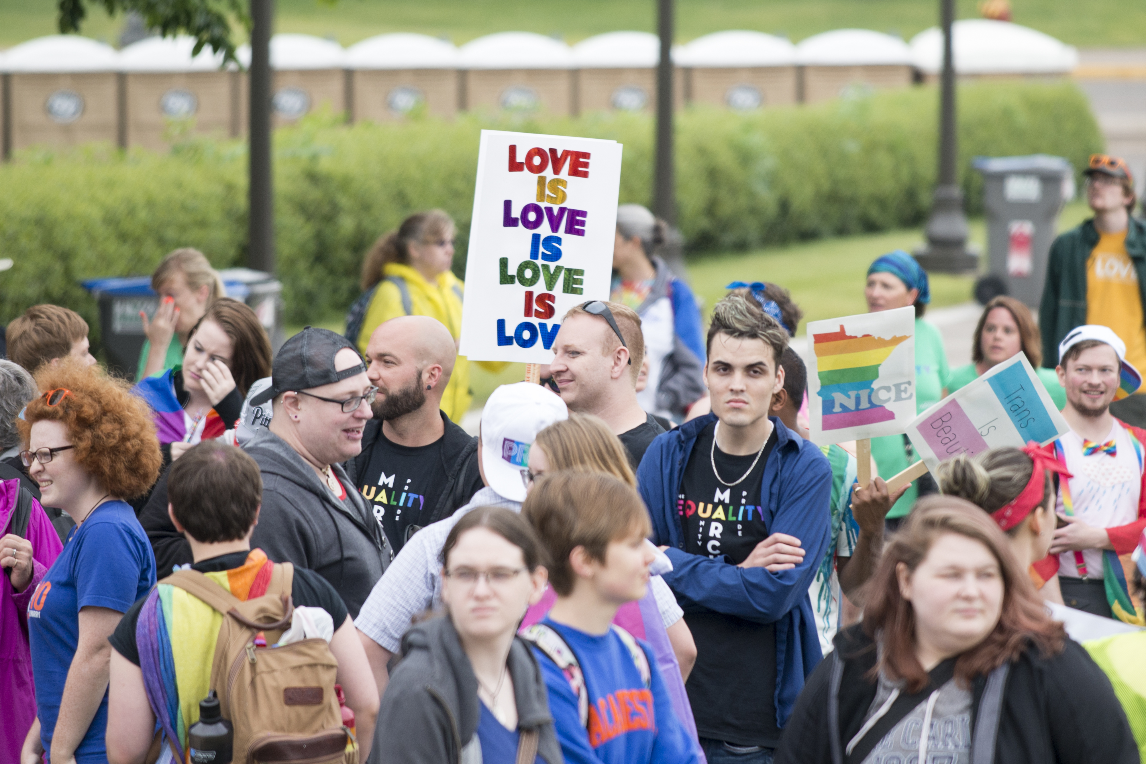 St. Paul, Minnesota June 11, 2017 About 400 people gathered on the Minnesota capitol grounds to stand in solidarity with the Equality March in Washington D.C. this day. Their goal was to inspire people of all gender and sexual identities to fight for love, justice, inclusion, and equity in a way that unites our community and creates space for people to show up as their whole, true, and authentic selves. 2017-06-11 This is licensed under the Creative Commons Attribution License. Give attribution to: Fibonacci Blue